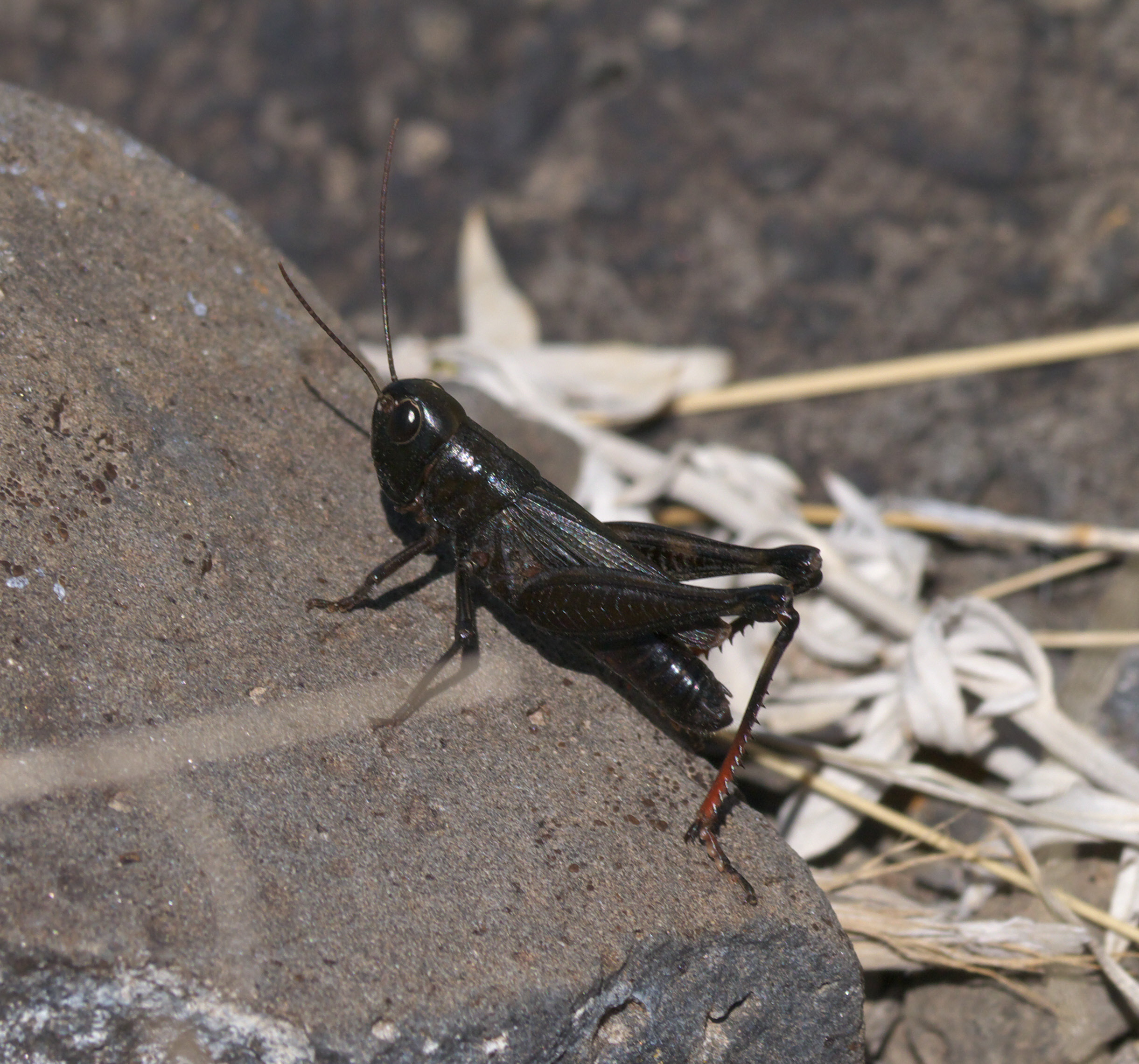 Boopedon nubilum, Ebony Grasshopper, ID Confidence: 98